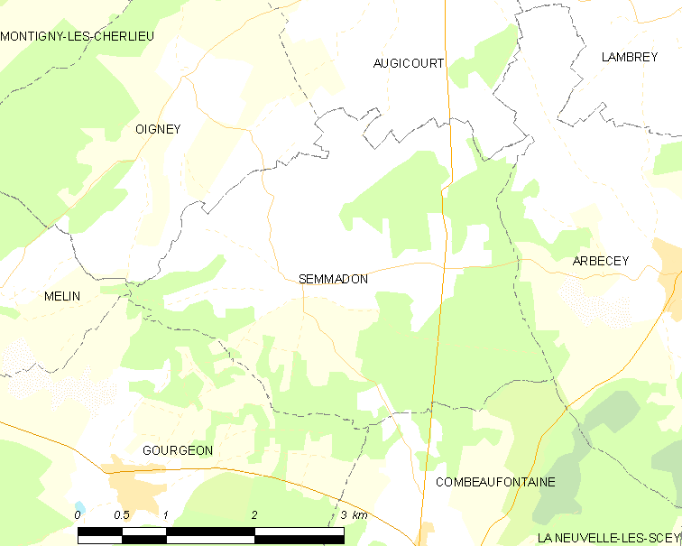 Map of French municipality